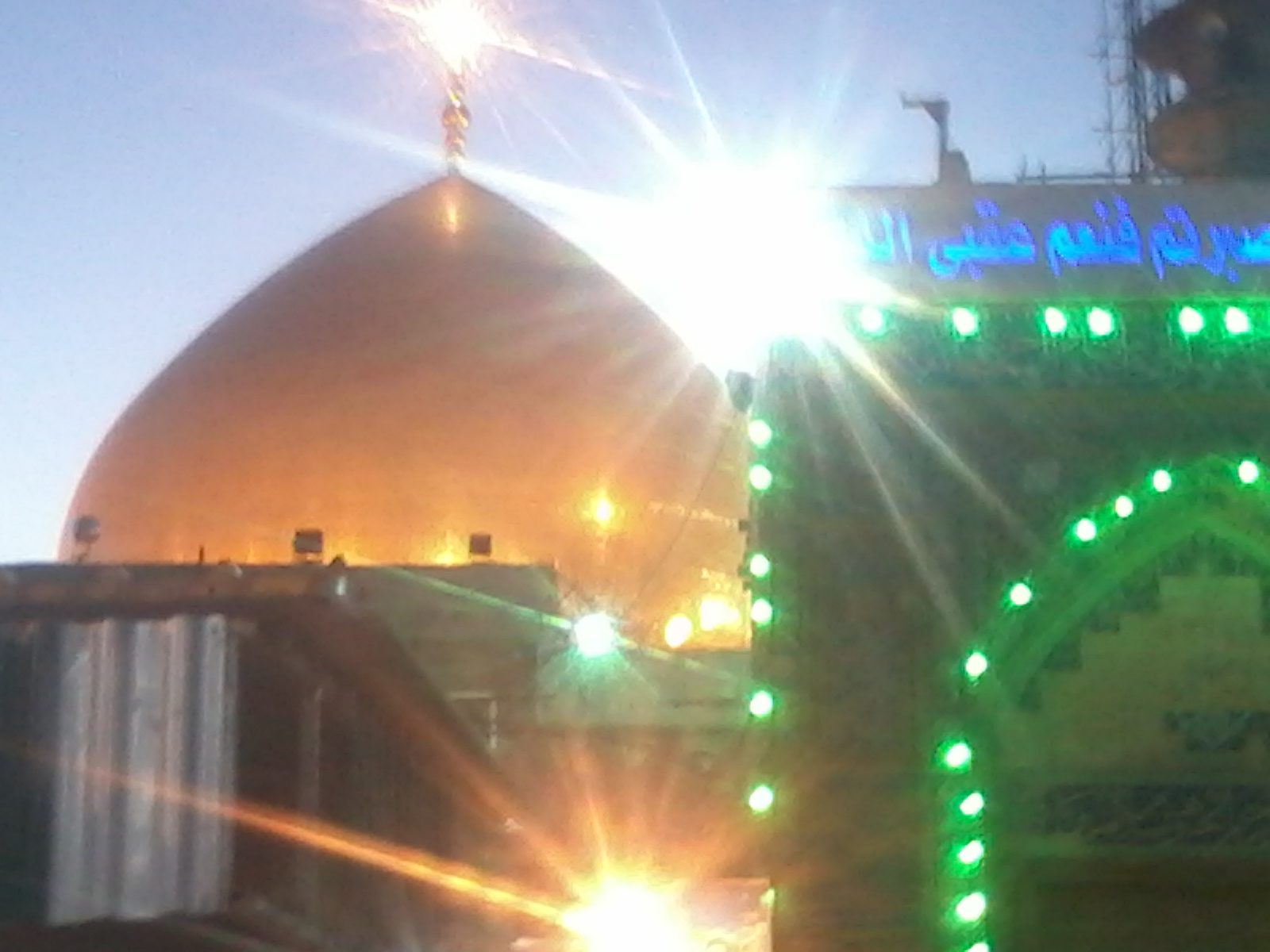 Al Askaru Mosque in Samarra